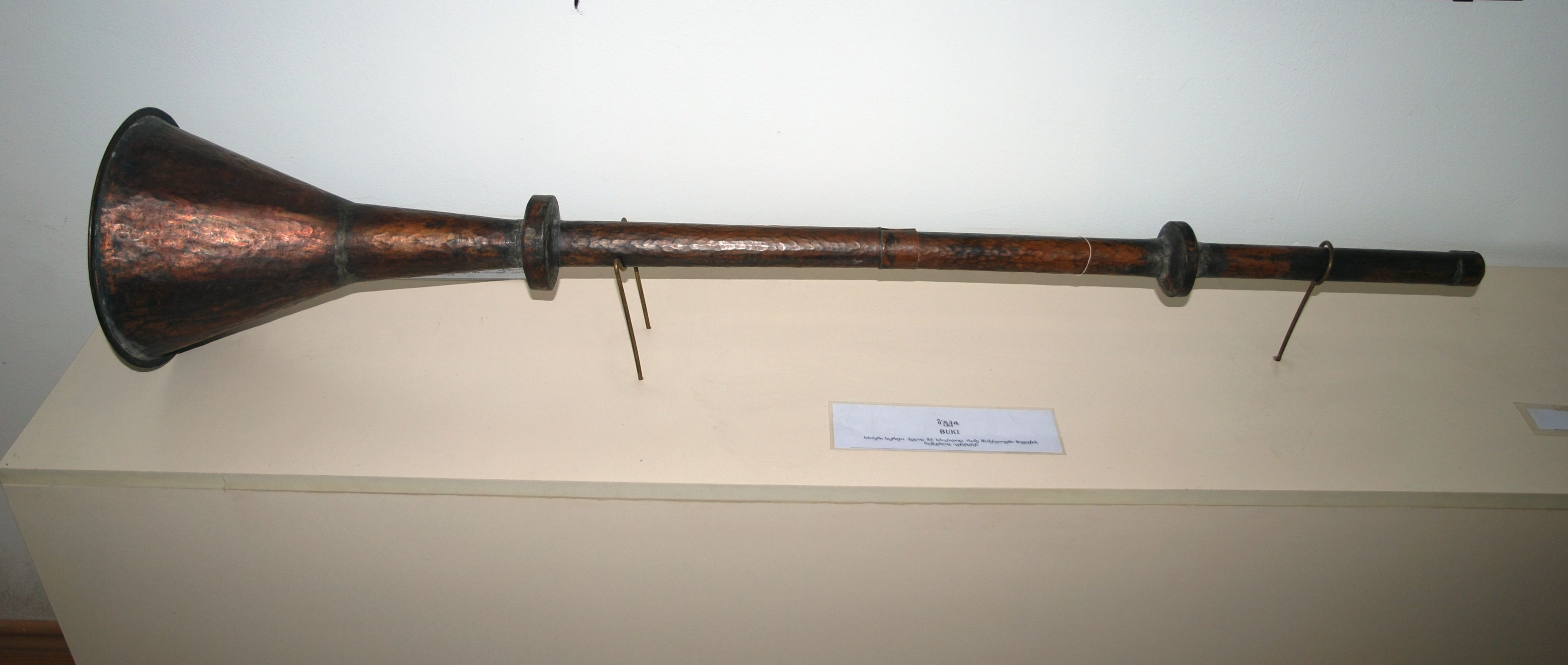 Buki, historical natural trumpet of Georgia, Tbilisi